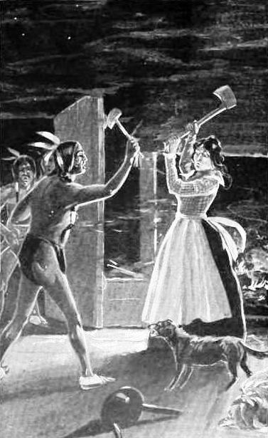 Illustration of the wife of Isaac Meeks resisting the surprise attack during the Big Bottom massacre. From the book of historical fiction by James Ball Naylor, illustrated by W. H. Fry: “In the Days of St. Clair, A Romance of the Muskingum Valley”, The Saalfield Publishing Co., Akron, Ohio (1902). Illustration plate located between pp. 278-79. ColWilliam (talk) 20:44, 26 June 2011 (UTC)